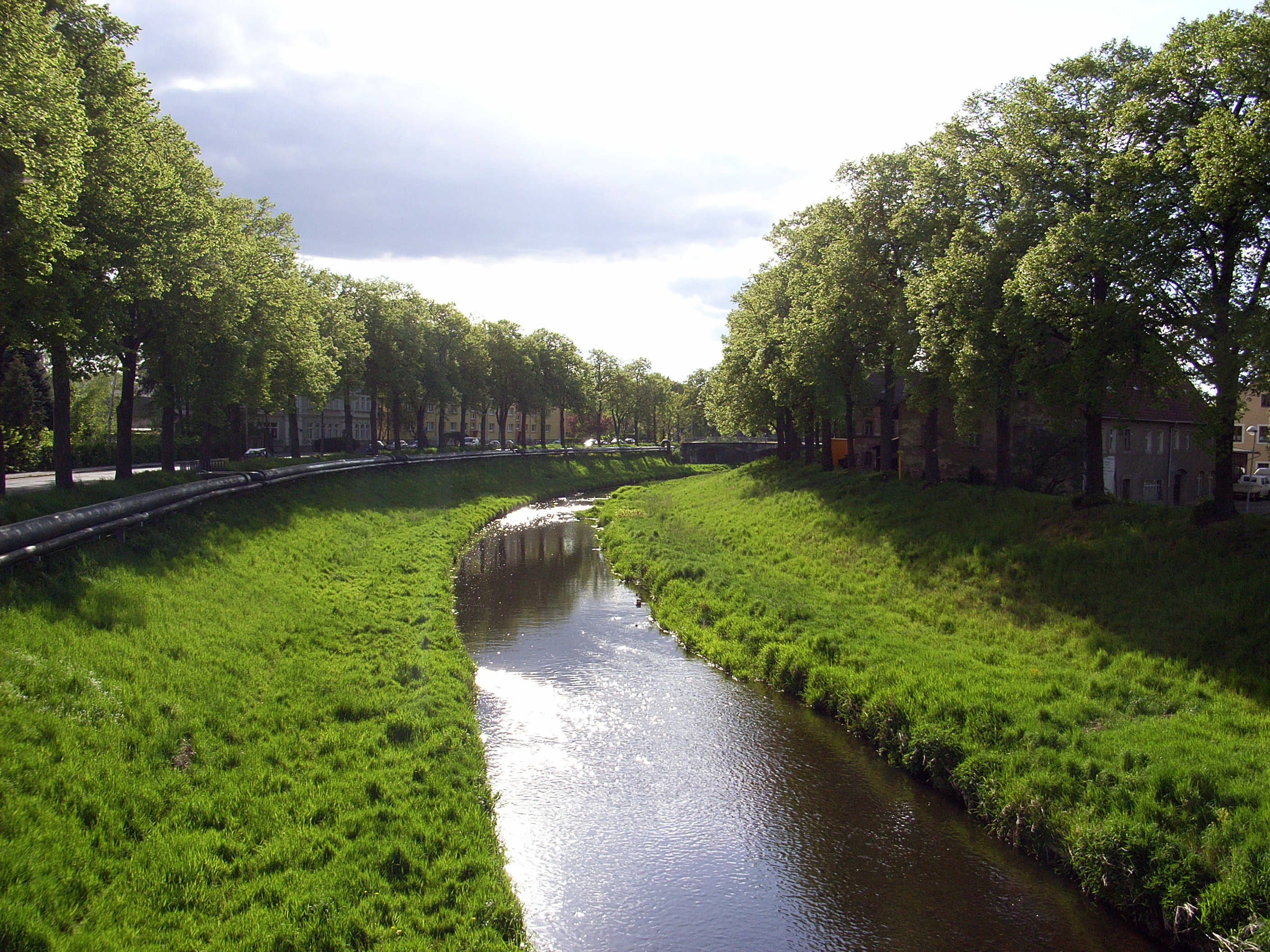 The Mandau in Zittau Hornjoserbsce: Mandawa w Žitawje